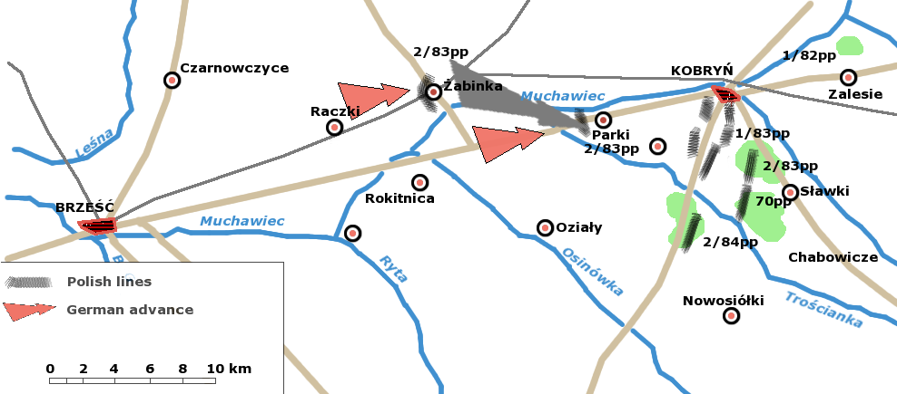 Battle of Kobryń, situation on September 17, 1939 The map shows the advance of German 2nd Motorised Division and the organised withdrawal of Polish 2nd battalion of 83rd Infantry Regiment